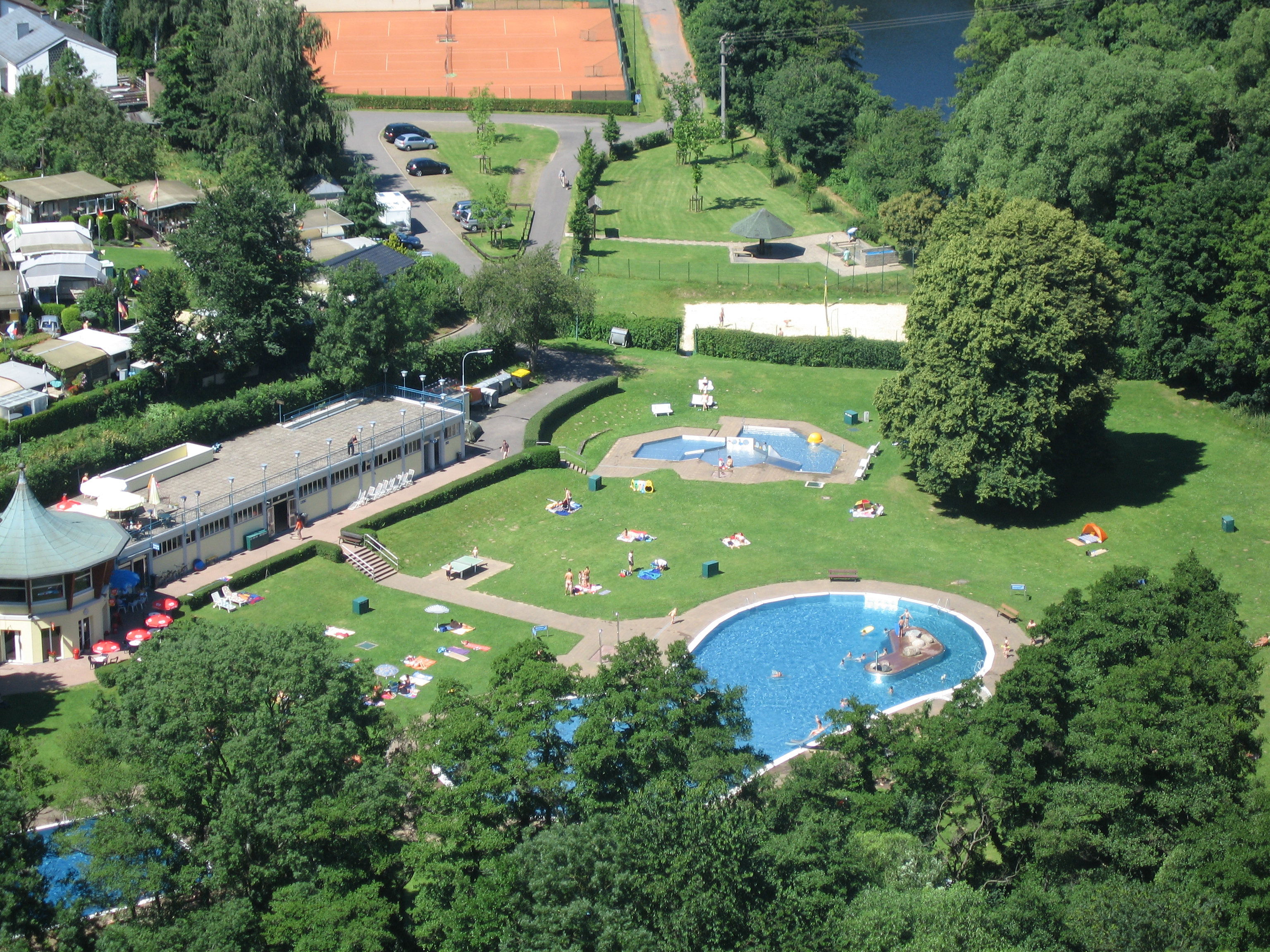 Blick auf Freibad Heimbach